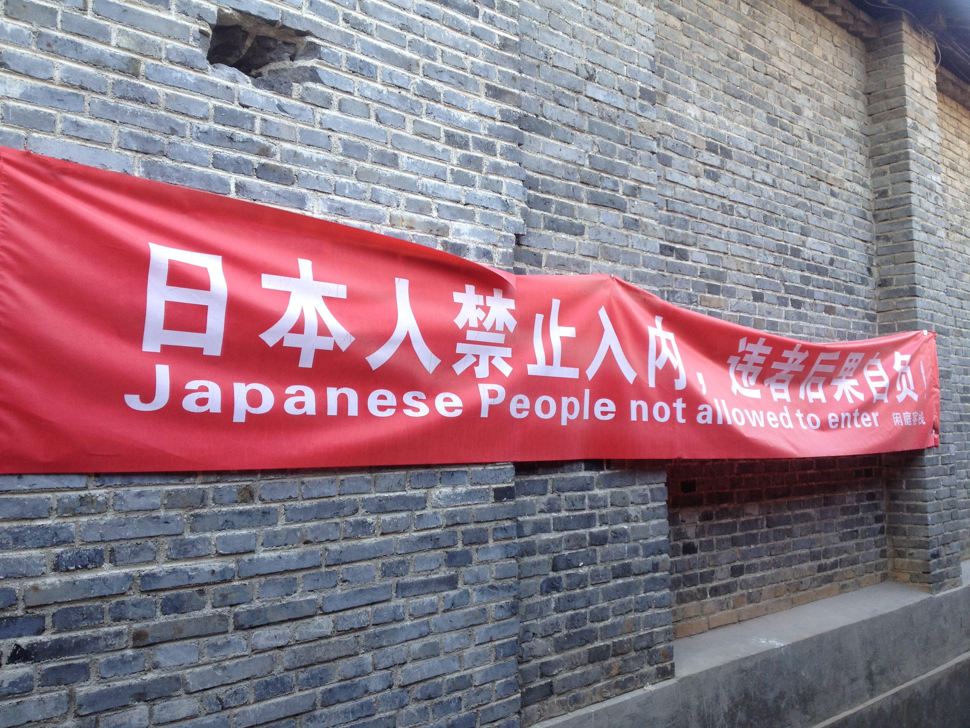 An anti-japanese banner hung on a wall in Lijiang old town in Yunnan, China. This photo was taken in February 2013.